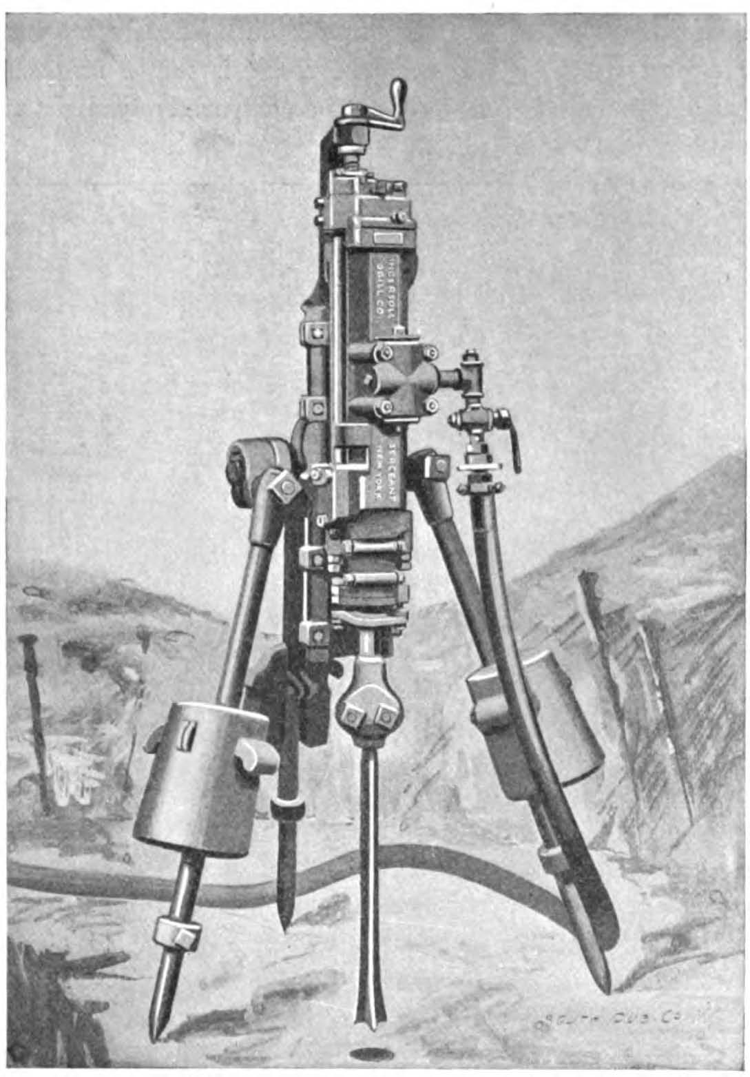 Figure 7 of 1898 publication called Maryland Geological Survey Volume Two, with caption "Ingersoll-Sergeant steam drill." (see Ingersoll Rand)